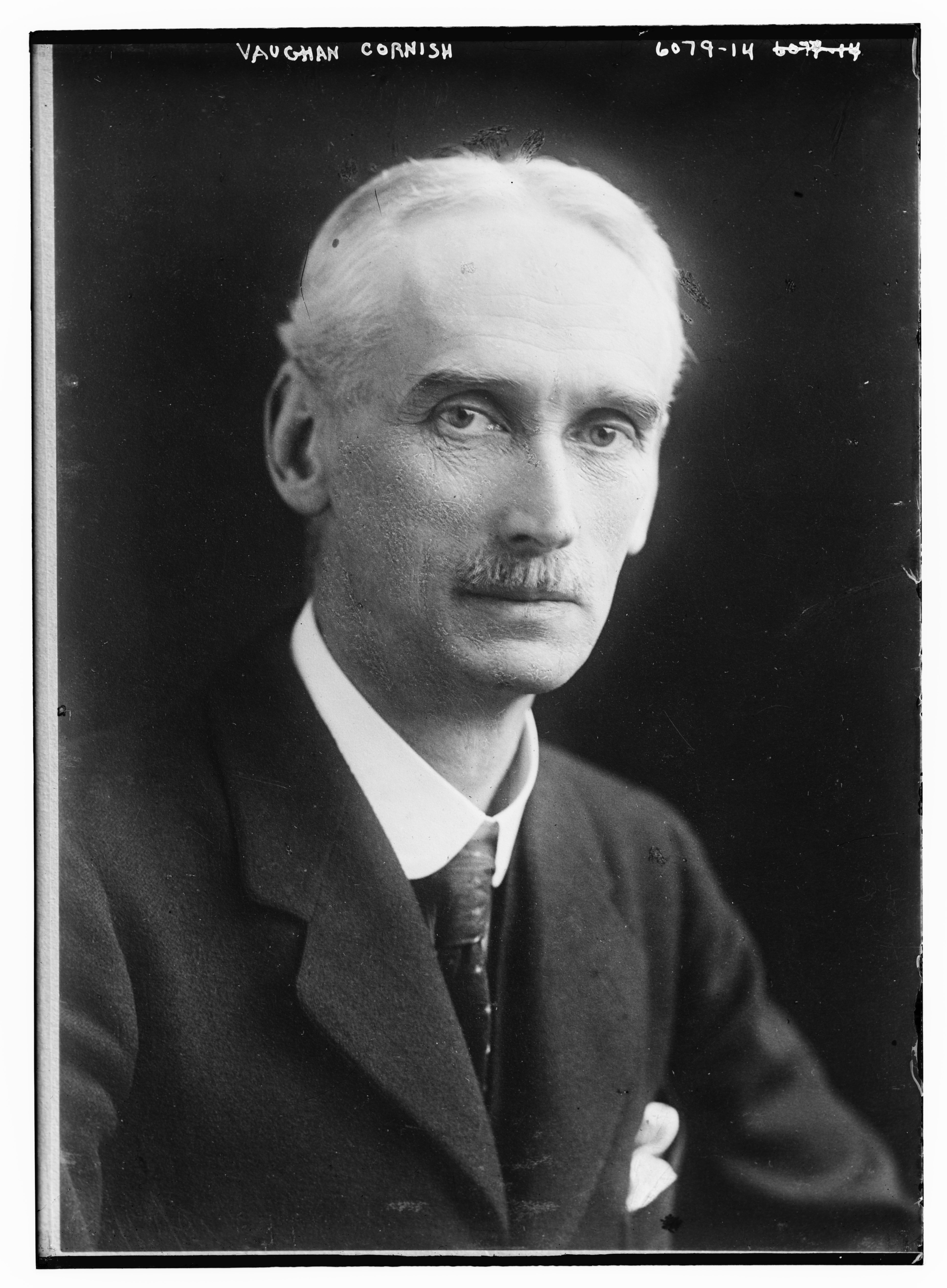 Title: Vaughan Cornish Abstract/medium: 1 negative : glass ; 5 x 7 in. or smaller.